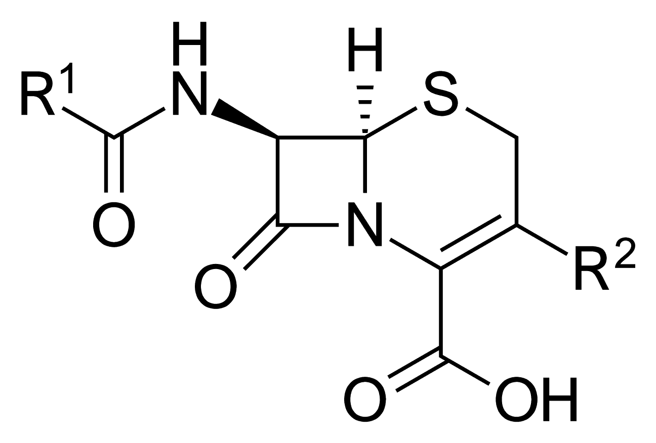 3rd gen common structure